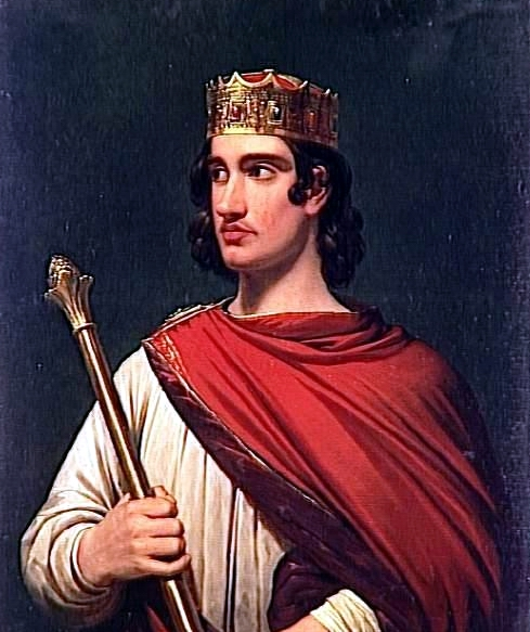 Portraits of Kings of France is a serie of portraits commissioned between 1837 and 1838 by Louis Philippe I and painted by various artists for the Musée historique de Versailles.